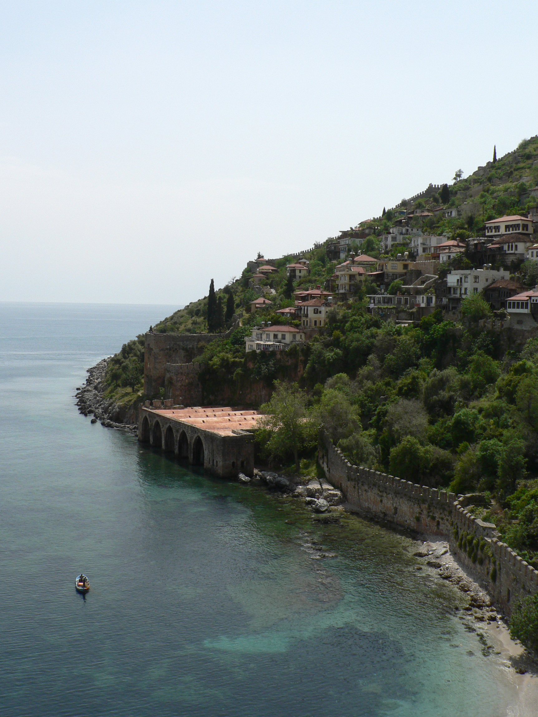 The medieval Tershane in Alanya, Turkey, as seen from the Red Tower next door.